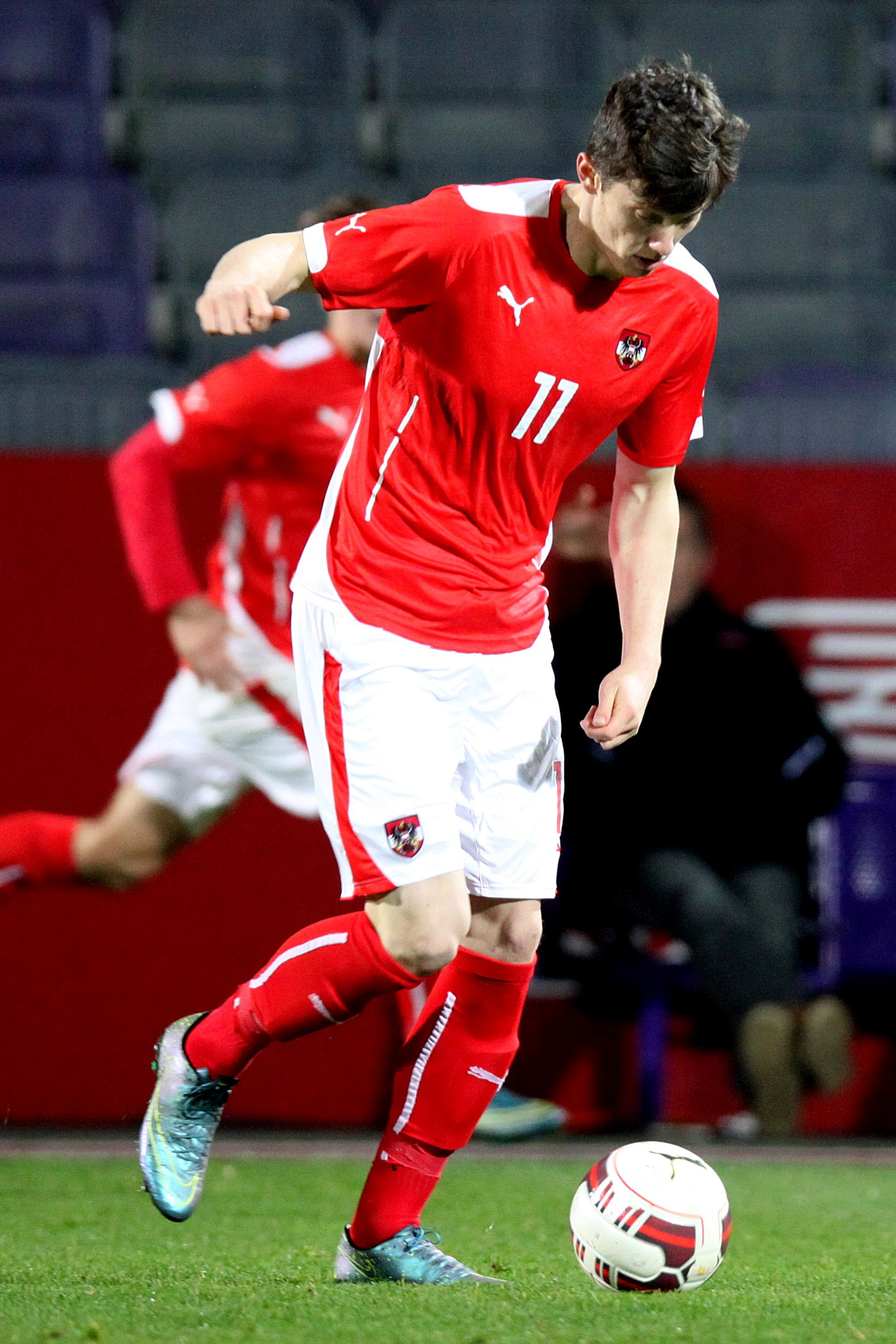 2017 UEFA European Under-21 Championship qualification – Austria U-21 (red shirts) vs. :en:Finland national under-21 football team |Finnland U-21 (blue shirts) 2-0 (0-0) – 2015-11-13 in Vienna, Austria Arena – The photo shows Michael Gregoritsch.